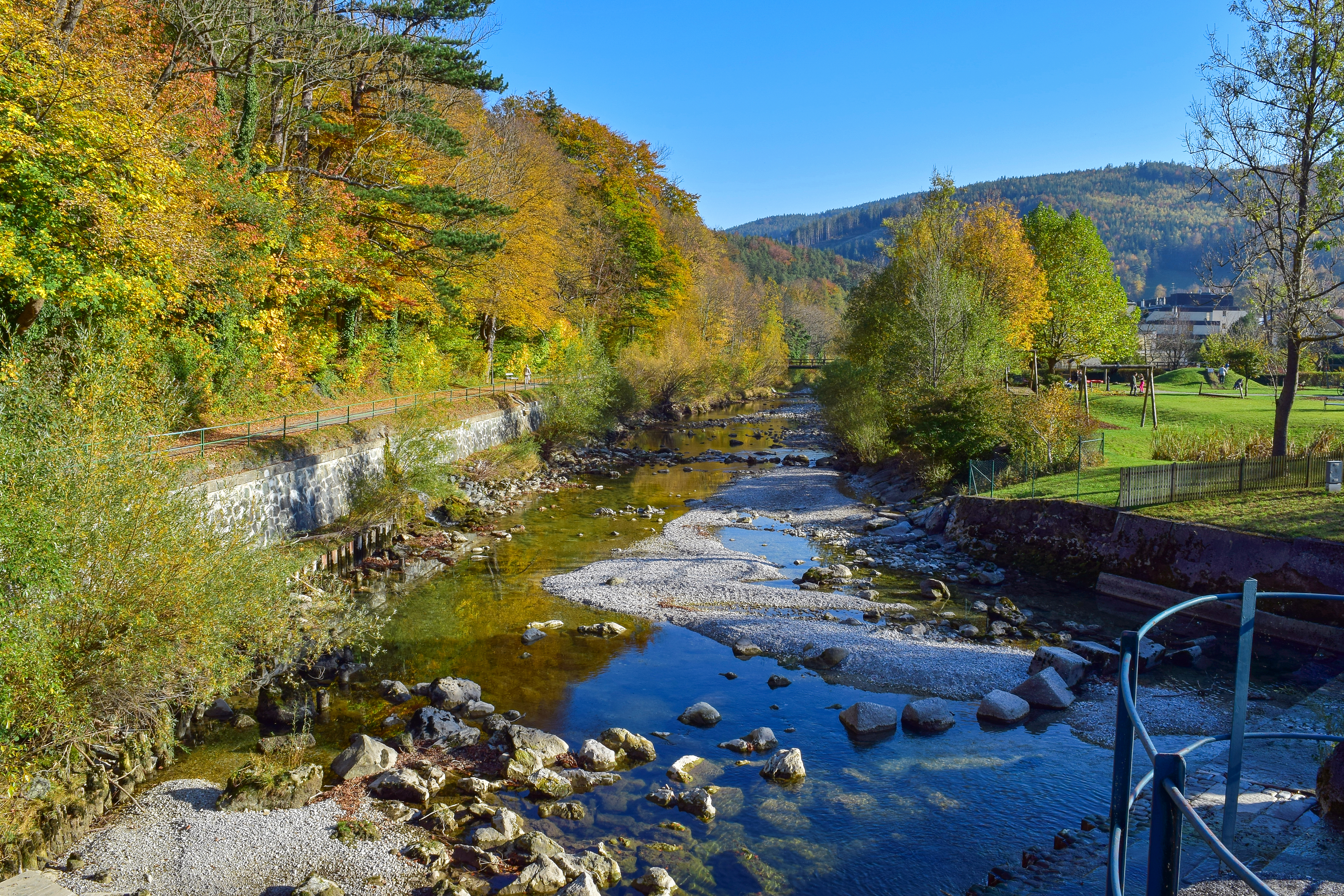 Schwarza river in Reichenau, Lower Austria